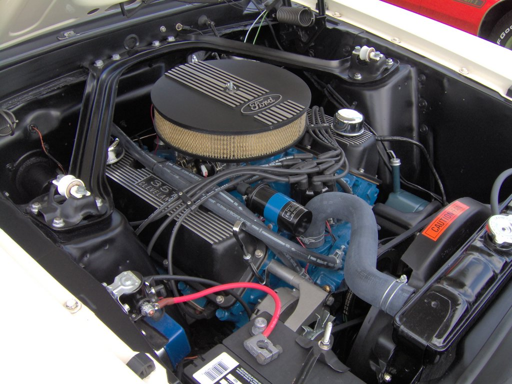 1969 Ford Mustang 351 Cleveland